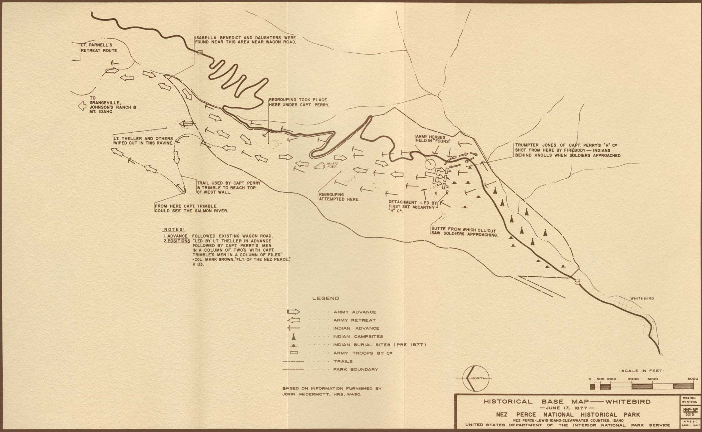 Map of the Battle of White Bird Canyon fought between the Nez Perce tribe of native Americans and the U.S. Army in Idaho Territory on June 17, 1877.